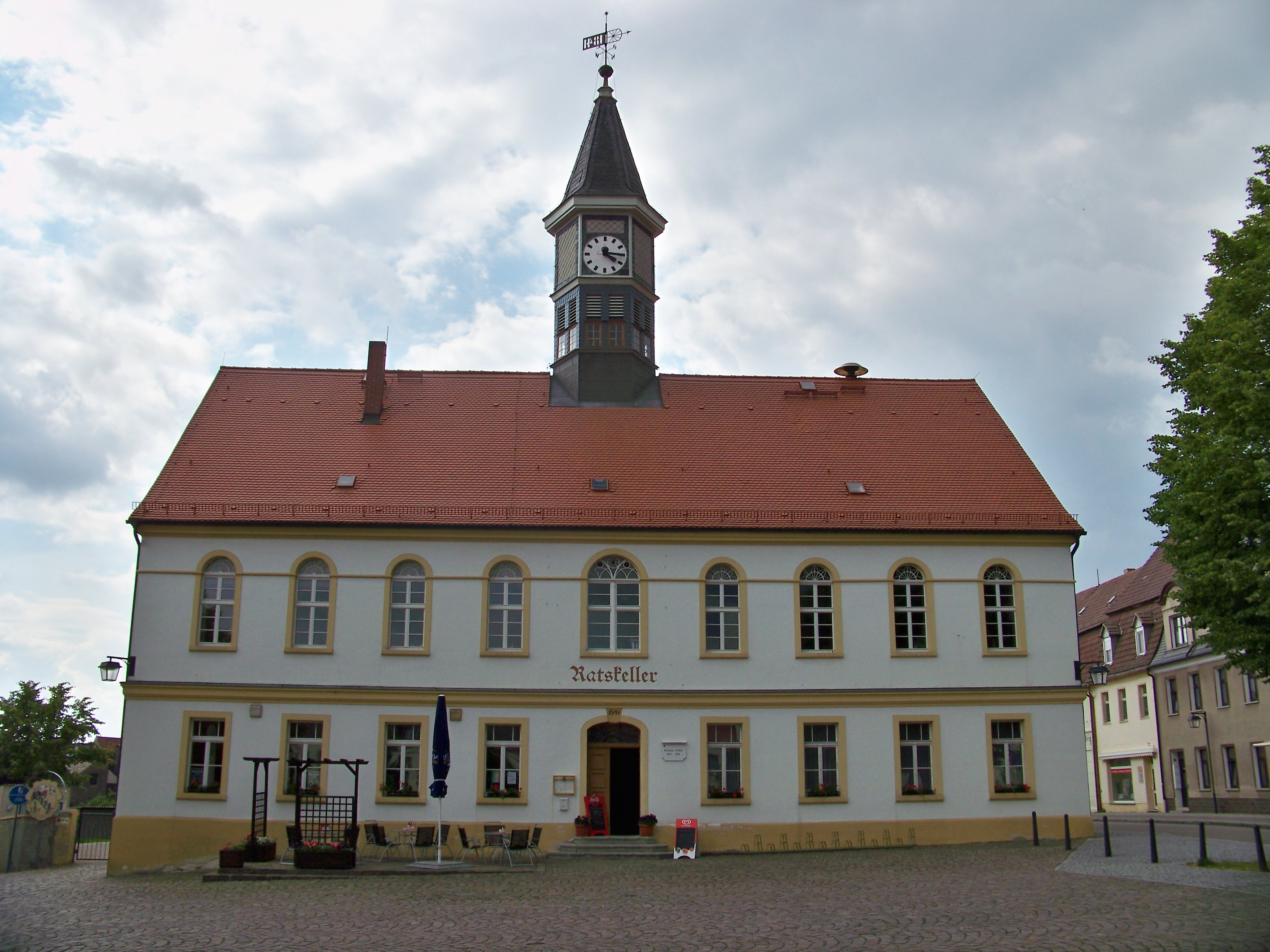 City Hall in Schildau / Sachsen, left the Gotham notice.